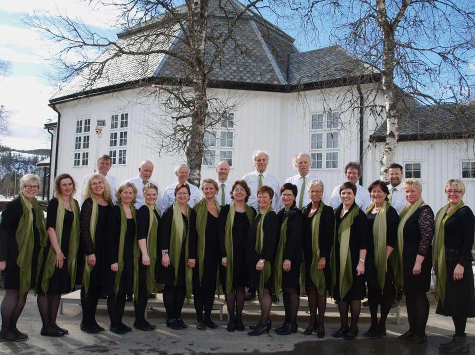 The Norwegian choir Helgeland Kammerkor, after a concert in northern Norway in april 2013.